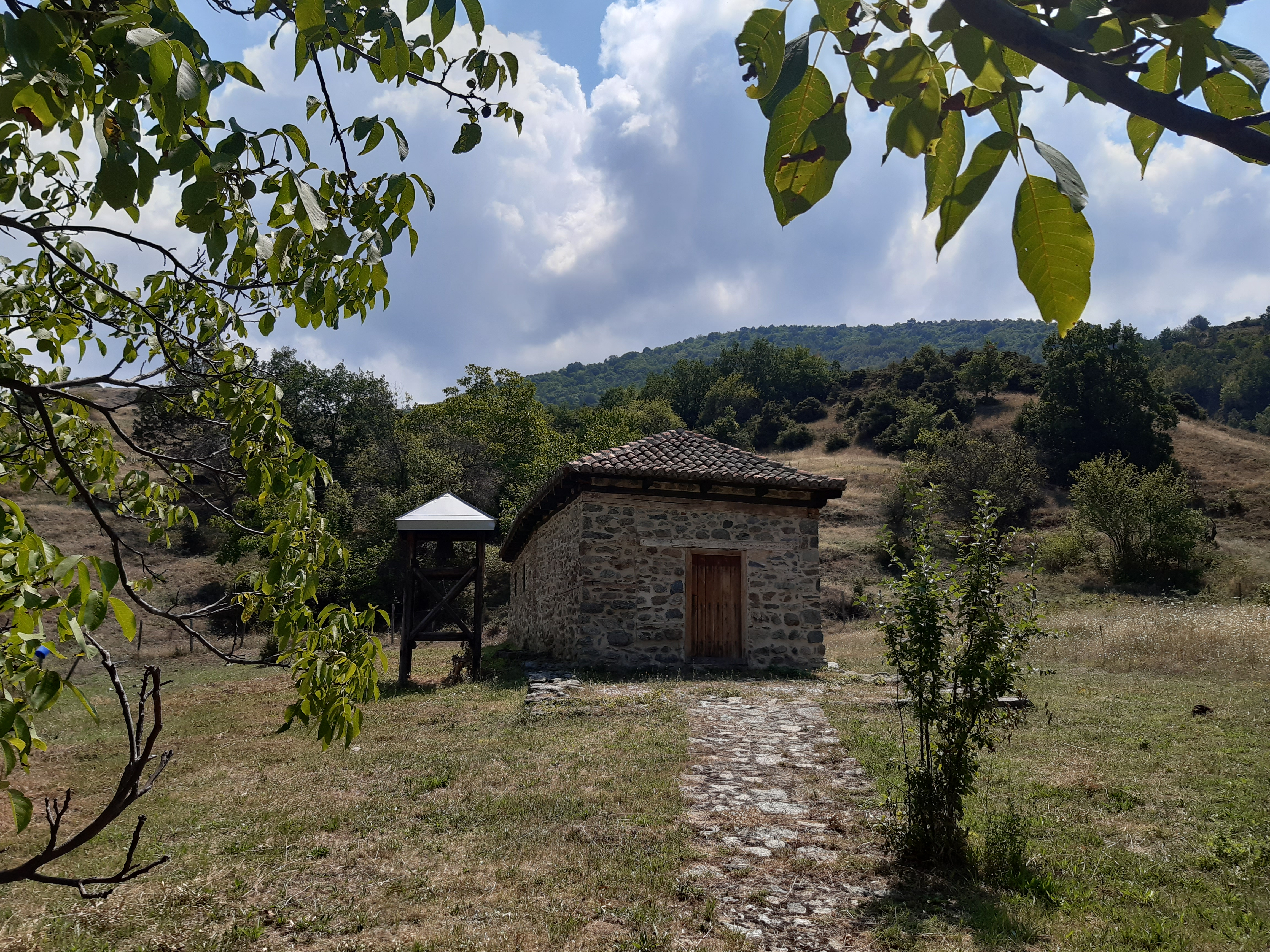 Candlemas Church, Laimos